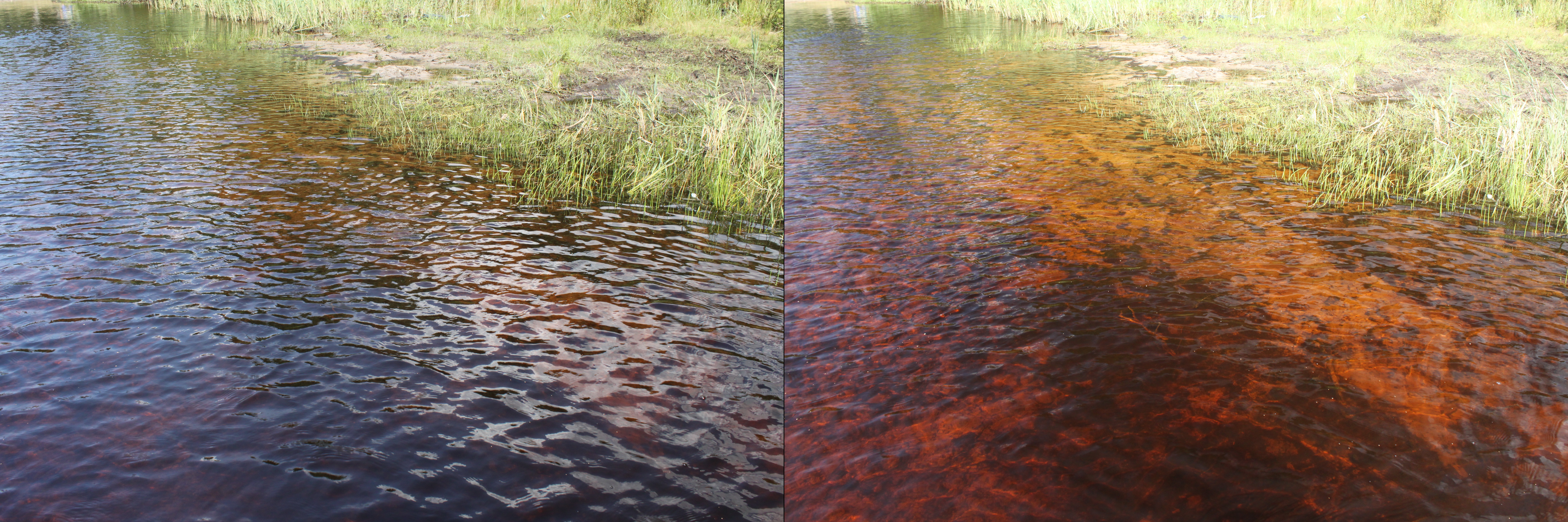 Water in lake Czarne, Marki, Poland Photo on the right tanek with polarization filter, on the left without polarization filter.